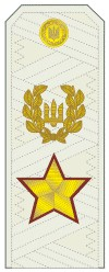 Rank insignia of the Armed forces of Ukraine, here "General of the Army of Ukraine" (OF9) – shoulder strap dress uniform (performance since 2009).